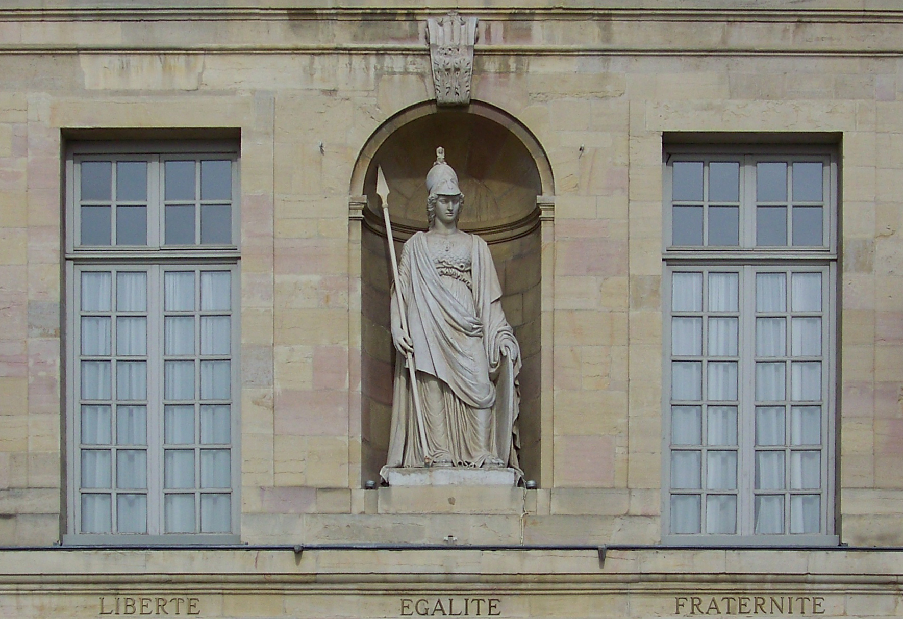 Facade of the Palace of the Dukes of Burgundy in Dijon.